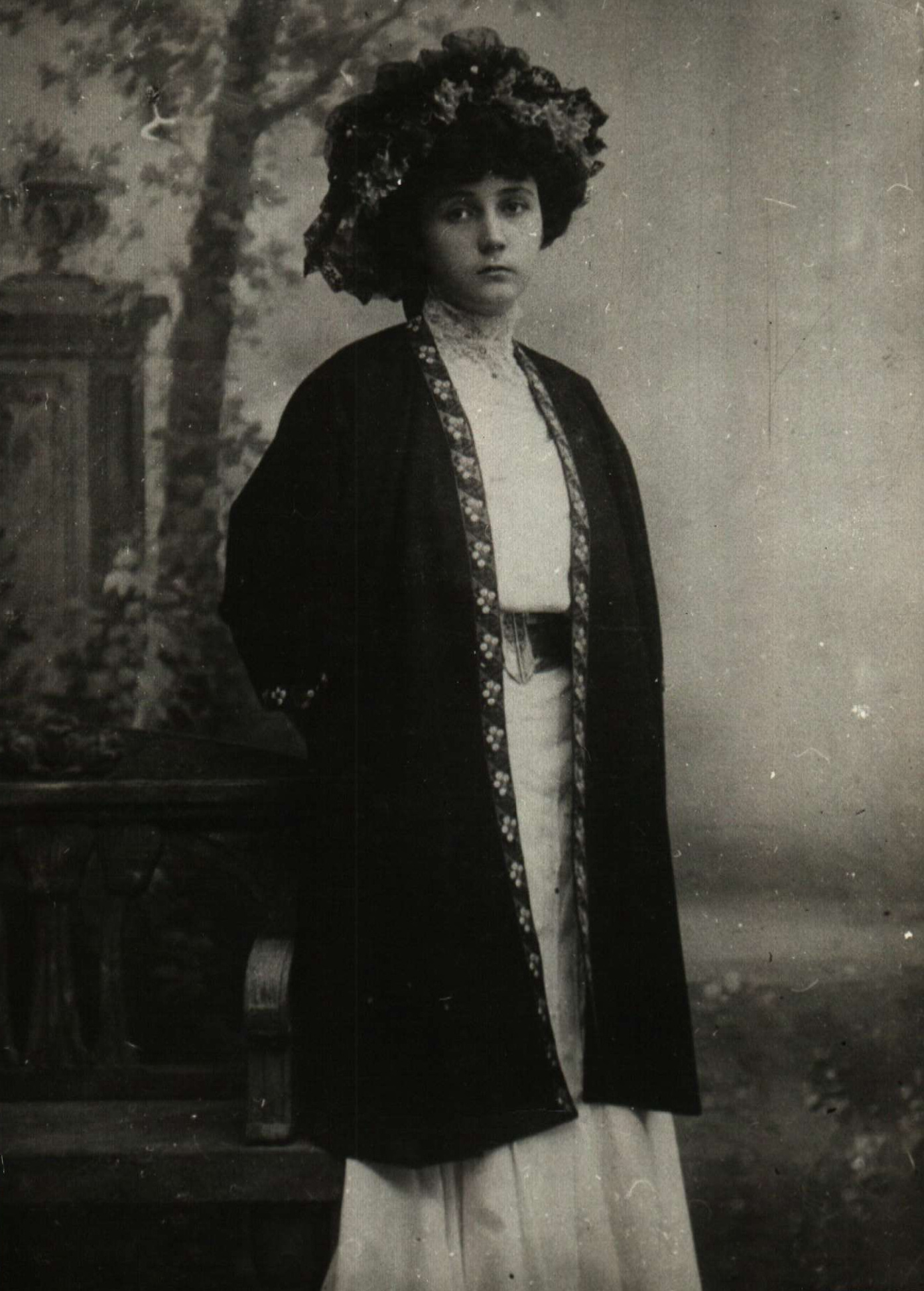 Lora Karavelova (1886-1913)